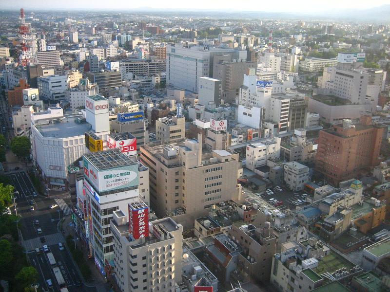 A picture of downtown Koriyama City in Fukushima Prefecture, Japan. Image was taken with a Canon PowerShot SD450 Digital Elph camera and edited using a Paint Shop program on a laptop computer.